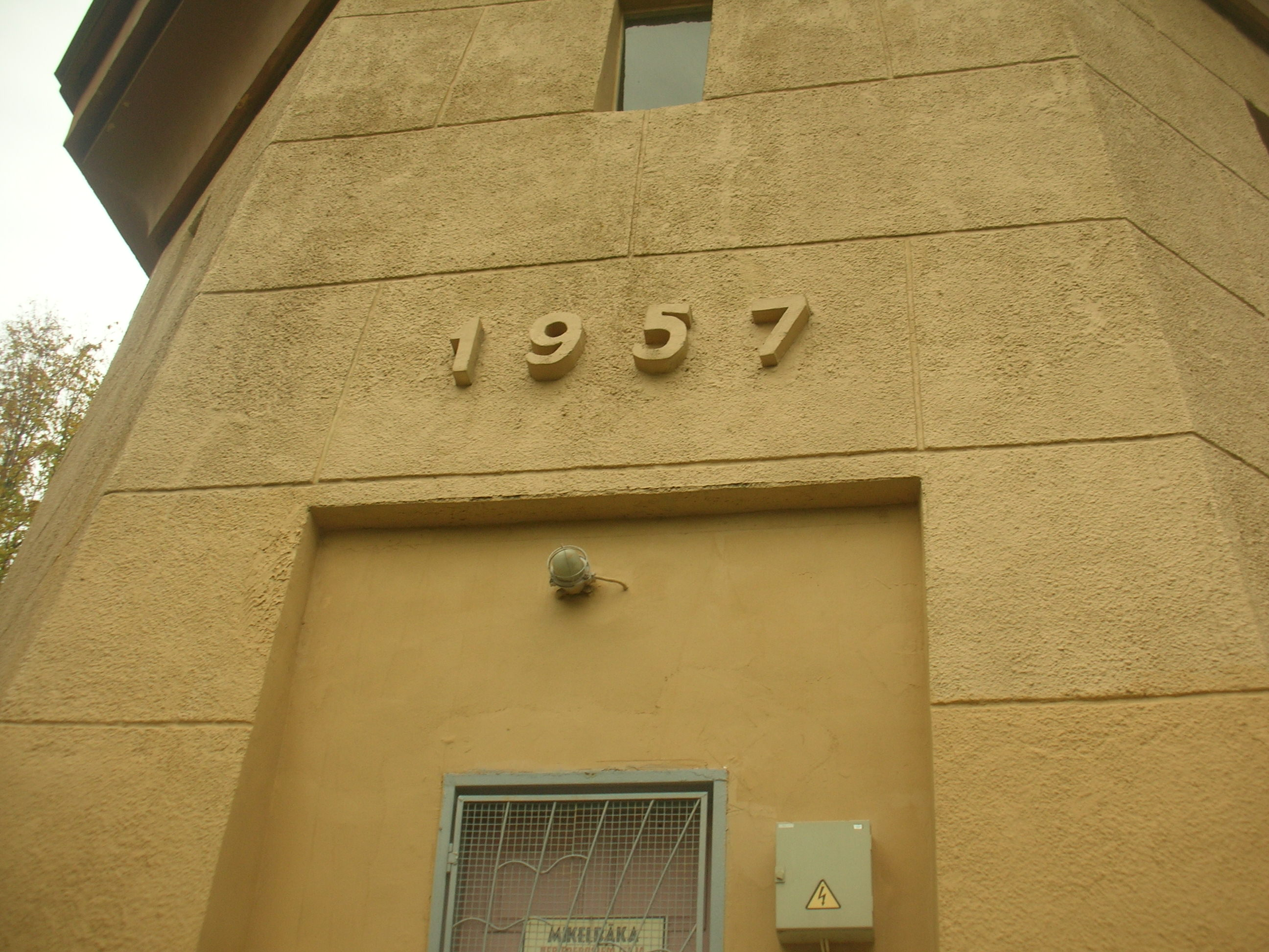 The entrence to Miķeļbāka.